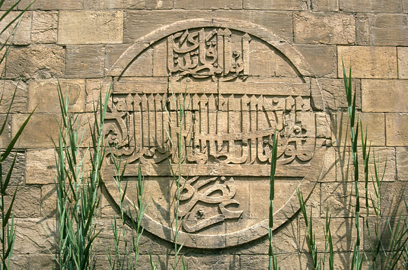 Inscription of Sultan Qaytbay at the south side of the Sidi Abu Bakr bridge, Mit Nama, Egypt